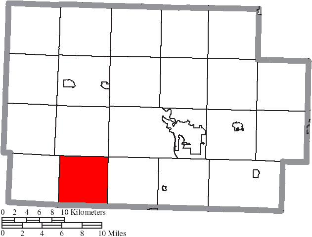 Map of the municipal and township boundaries of Coshocton County, Ohio, United States, as of the 2000 census, with the location of Washington Township highlighted. Township borders are shown only in unincorporated areas in order to differentiate incorporated and unincorporated areas more clearly.